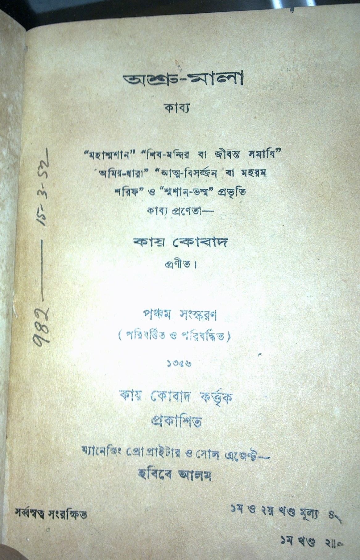 Photo of poetry "Asru-Mala" written by Bengali Poet Kaykobaad